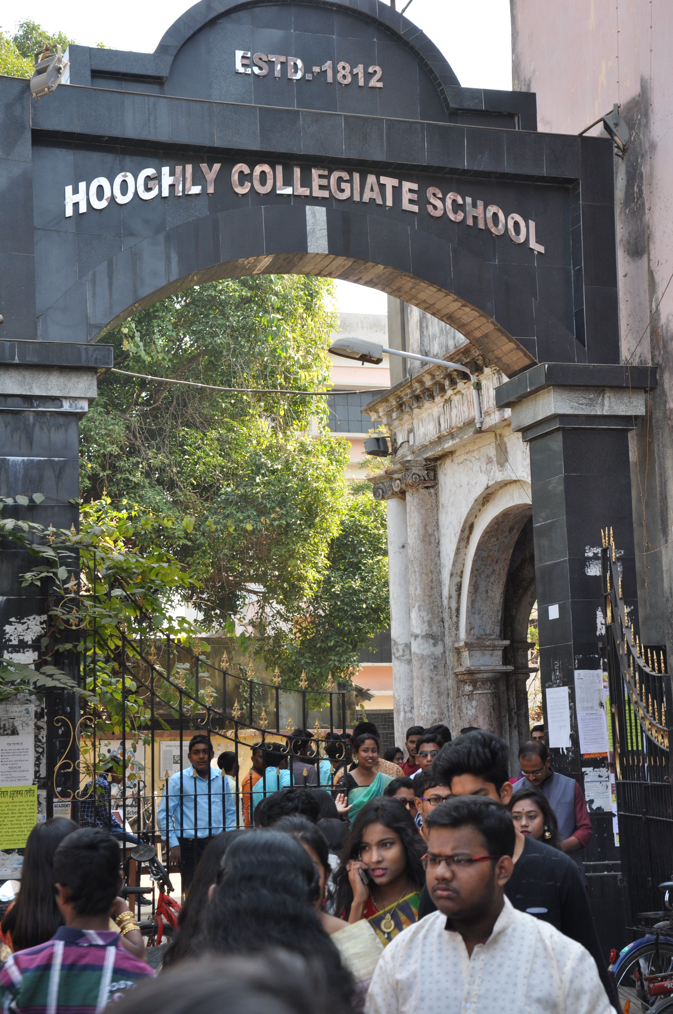 Front Gate of Hooghly Collegiate School